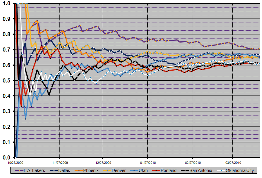 Team standings progression on the NBA Western Conference teams that qualified to the playoffs. Data from 's game logs.